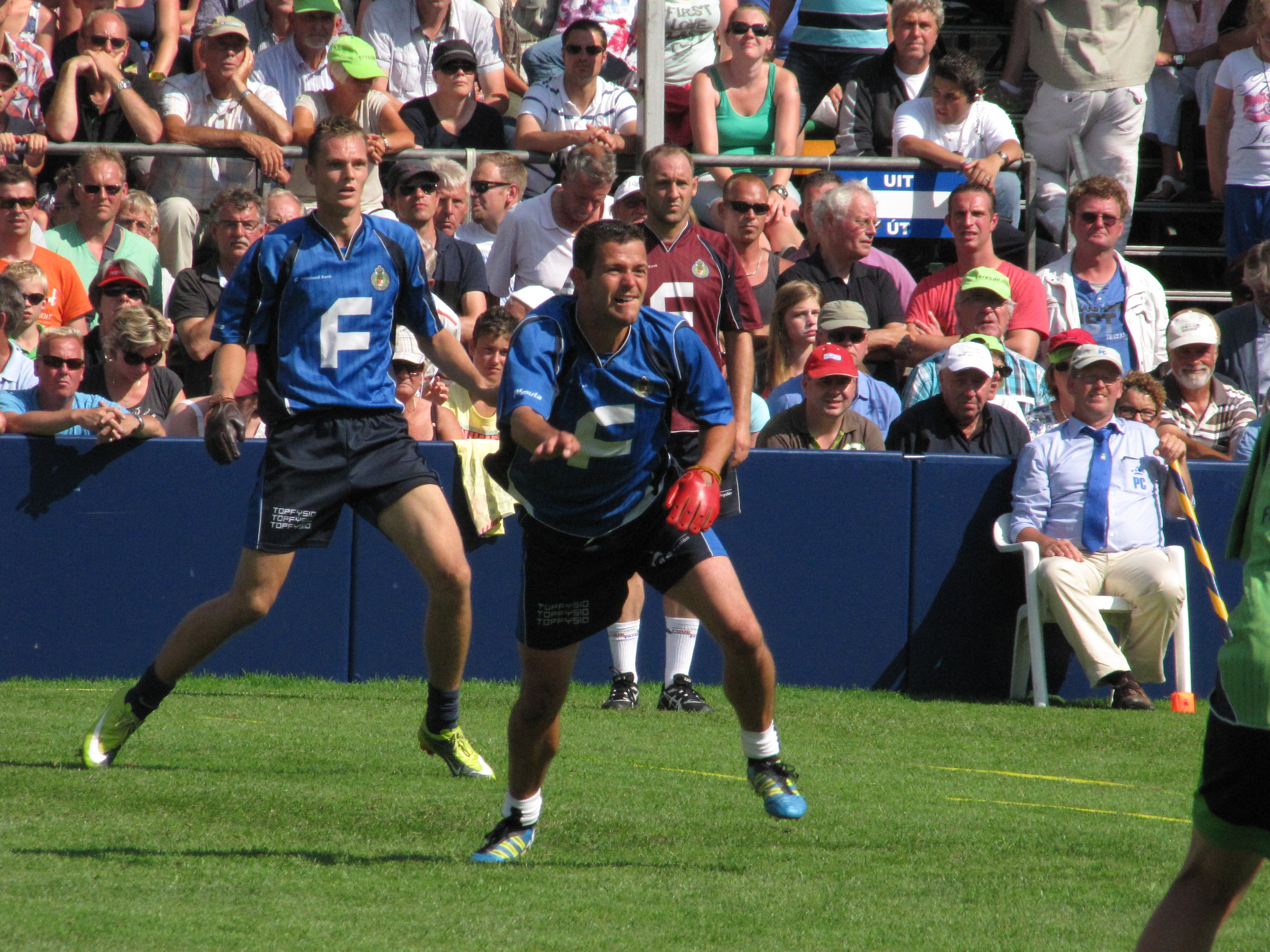 Winners Anema and Van Zuiden during the PC of 2012